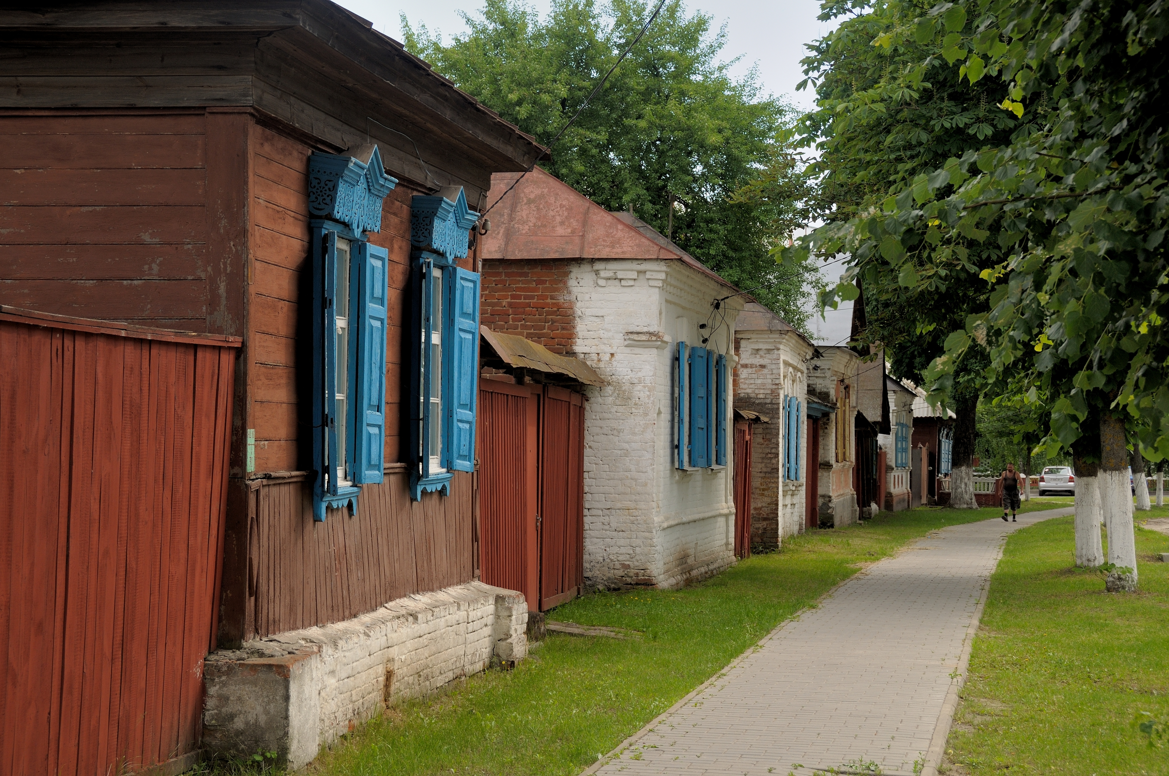 The street of old Dobrush, Belarus